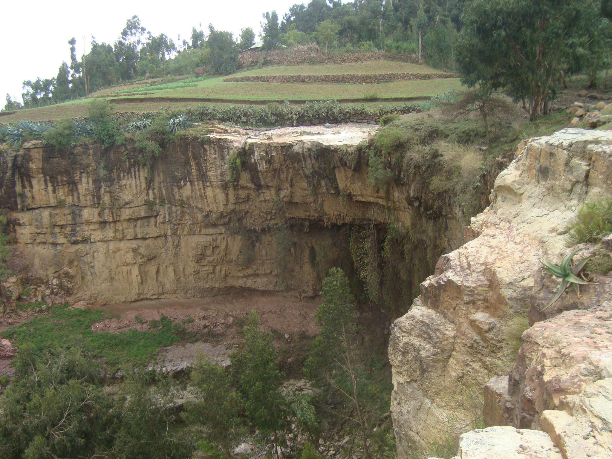 Dingilet waterfall in Dogu'a Tembien - Amba Aradam sandstone